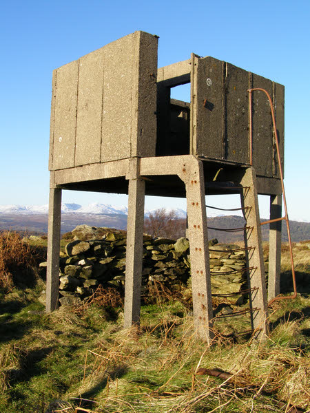 Look out tower on Bigland Barrow